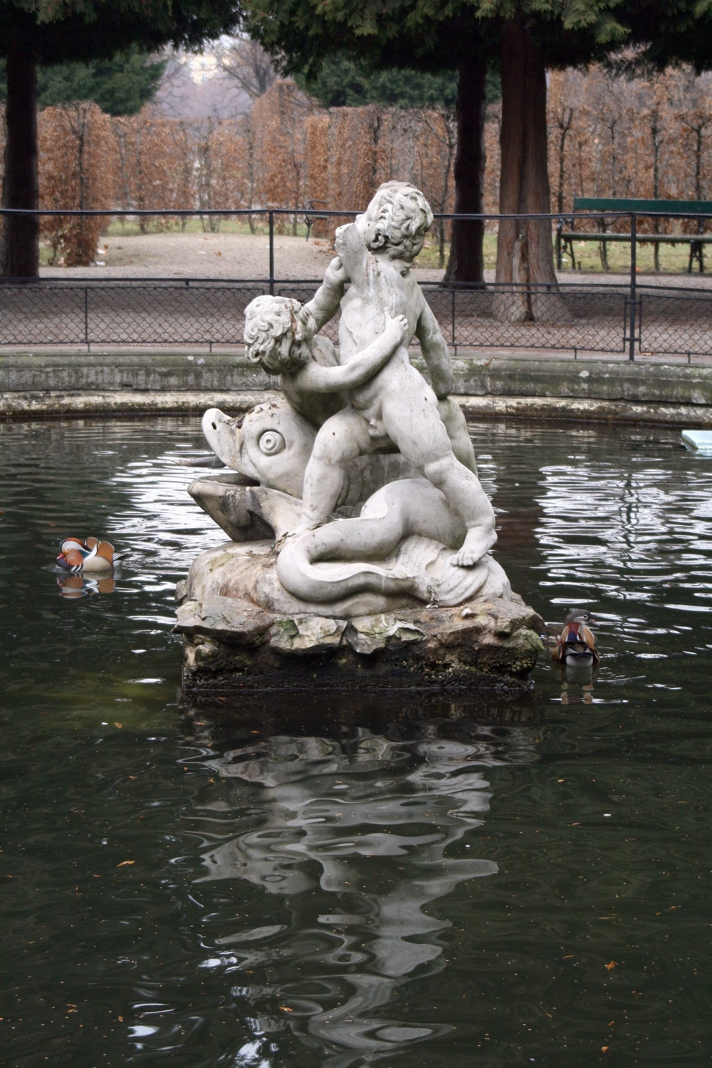 'Fischbassin' with Mandarin Ducks in the park of Schönbrunn Palace in Vienna